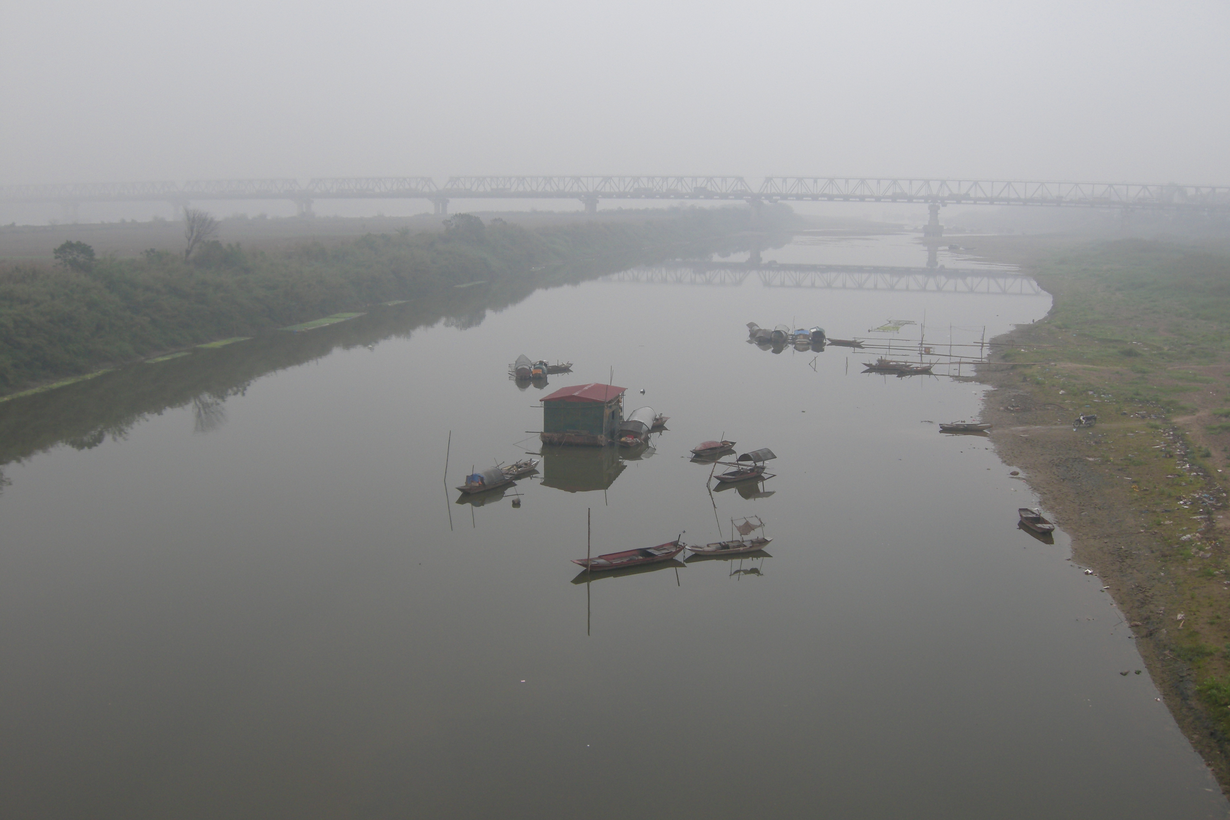 Panoramic view of Red River from Long Biên Bridge, Hanoi, Vietnam.